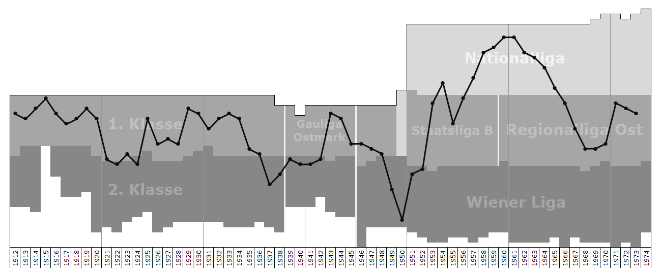 Chart of end-season table positions of Wiener AC in the Austrian football league system. Data source: RSSSF, , regiowiki.at, wfv.at, wikipedia